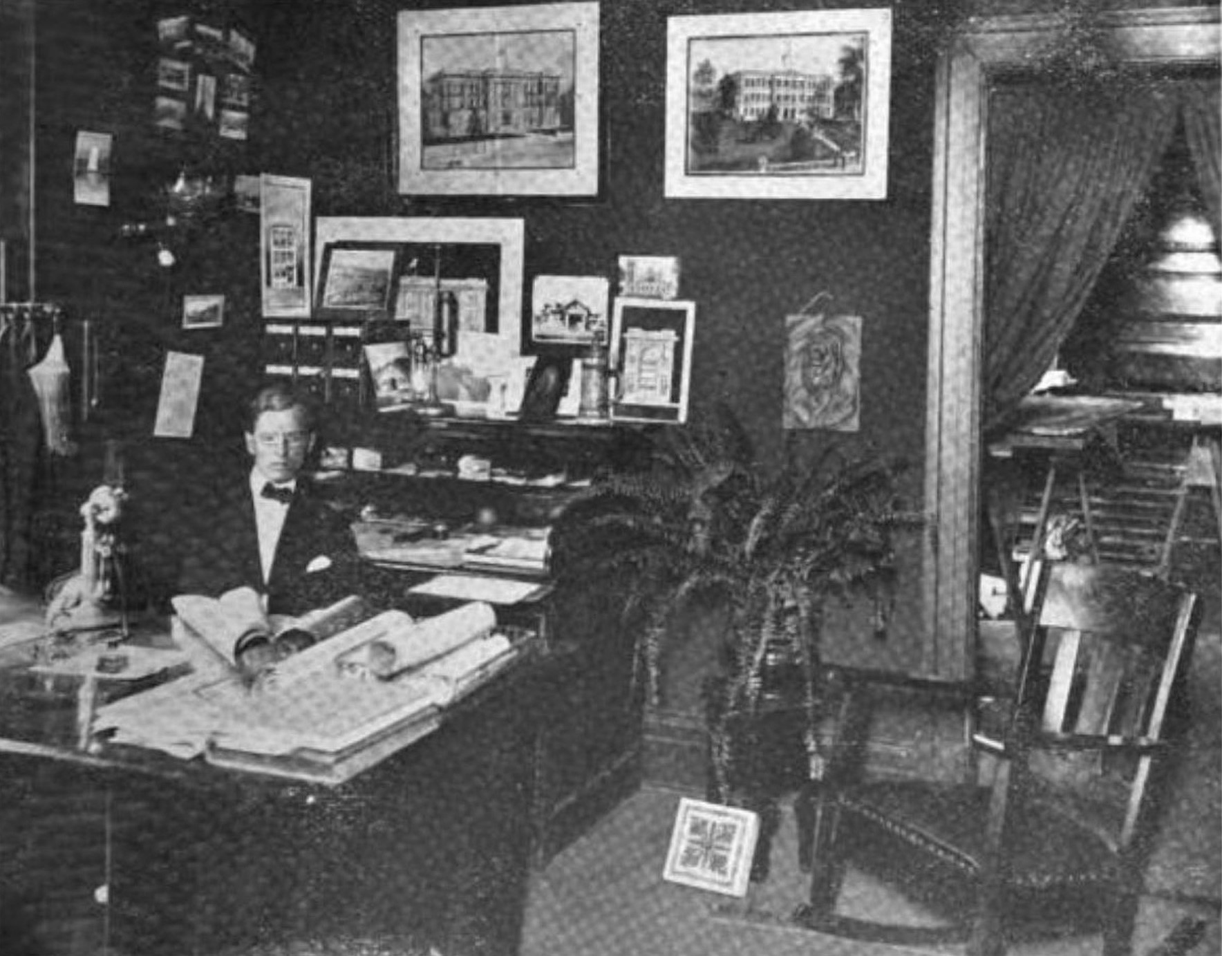 Photo portrait of Charles W. Bates (1879-1929), noted architect of Wheeling, West Virginia, in his office, 1909. The images hanging on the wall behind him (l-r) are his unsuccessful competition entry for the Wheeling High School (1908), and his Rose Hill School, Bellaire, Ohio (1909).